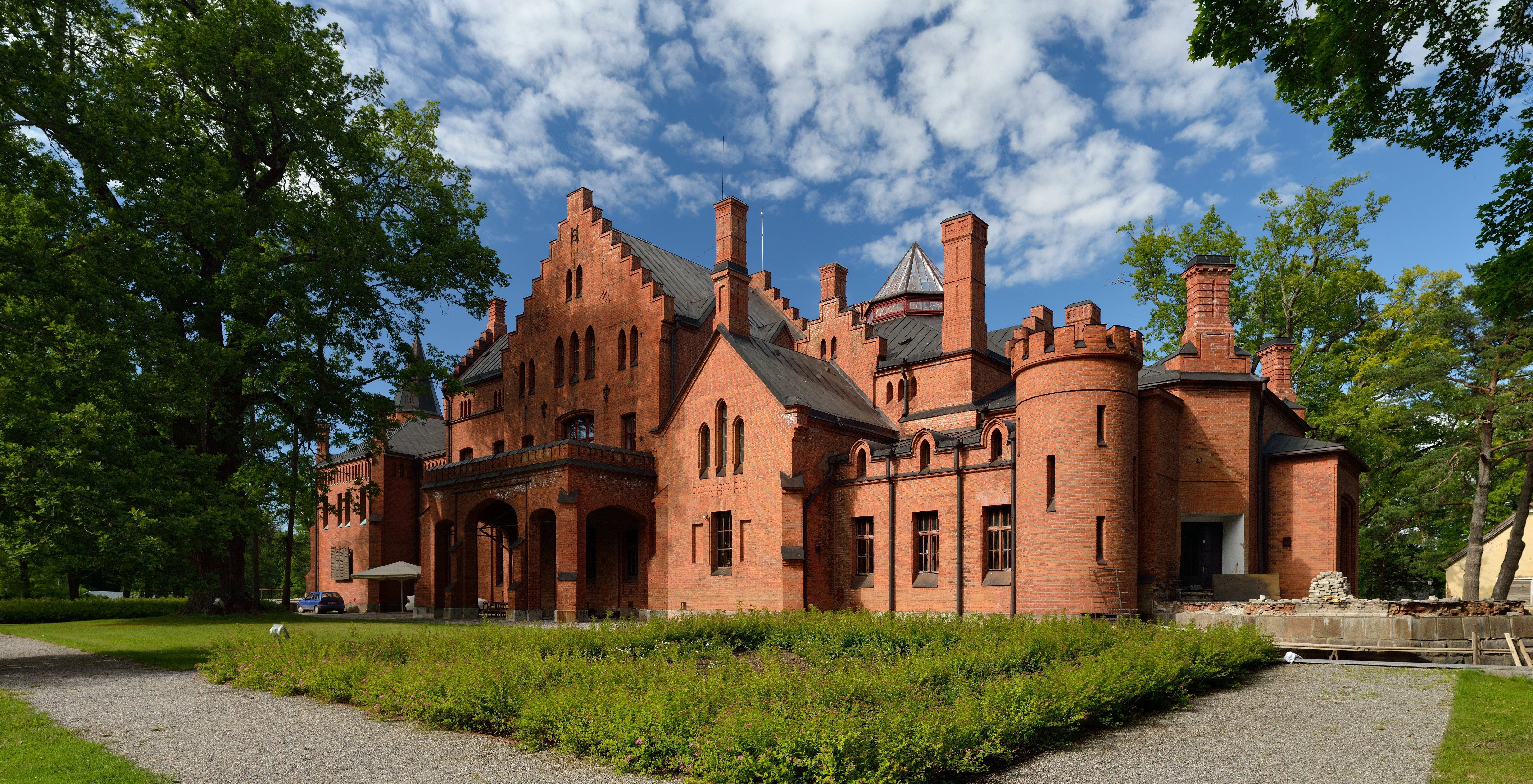 Sangaste manor main building, built in 1874–1881.